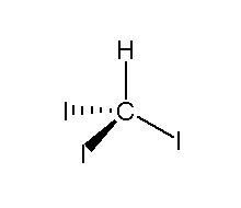 Iodoform